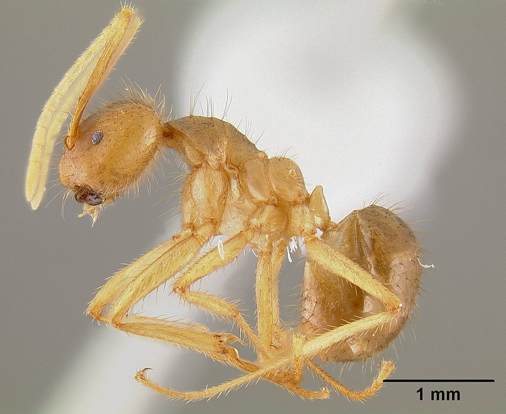 Profile view of ant Pseudolasius australis specimen casent0106005.